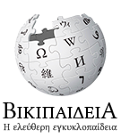 Wikipedia logo 2.0